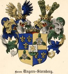 Coat of arms of Ungern-Sternberg family.